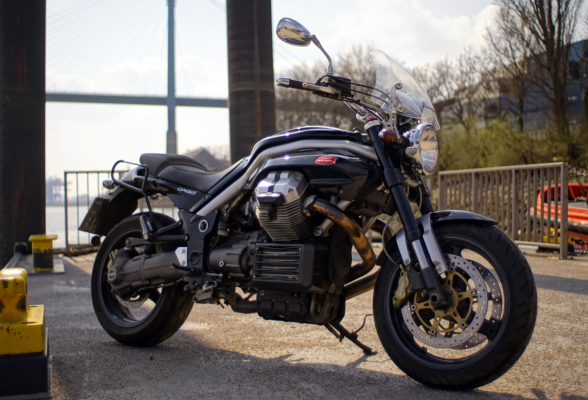 Moto Guzzi Griso 1100 in Hamburg